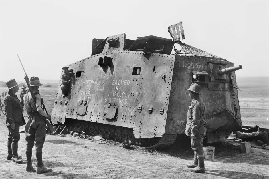 A German A7V tank captured by the 26th Australian battalion, at Monument Wood, near Villers-Bretonneux, in France, on July 14th, 1918.; Black & white - Glass original half plate negative. Unknown Australian Official Photographer. France: Picardie, Somme, Corbie Albert Area, Vaux. Image made on 4 August 1918.Copyright expired - public domain.